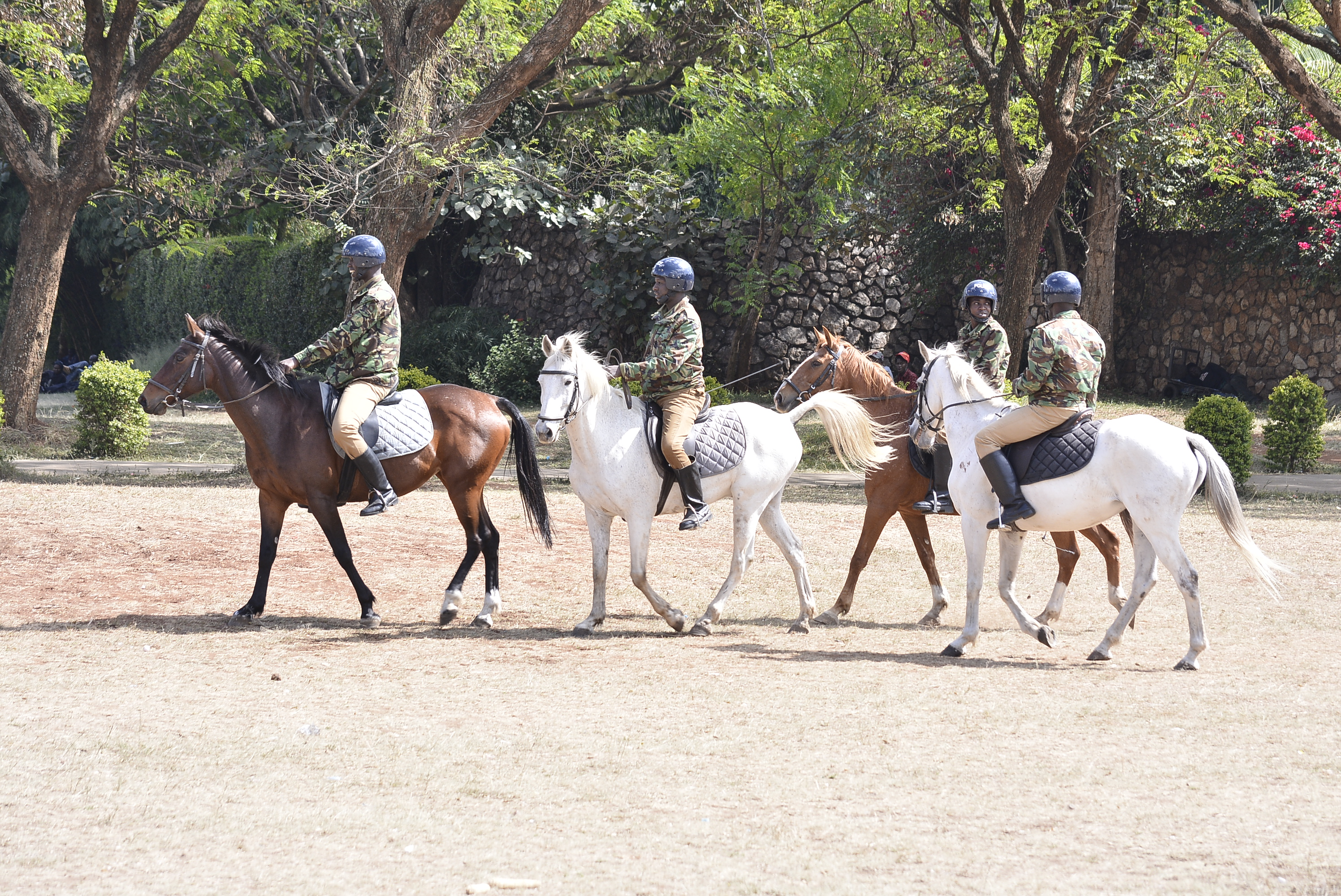 Police officers doing patrols with their horses around the city in Nairobi Kenya This is an image with the theme "Africa on the Move or Transport" from: Kenya